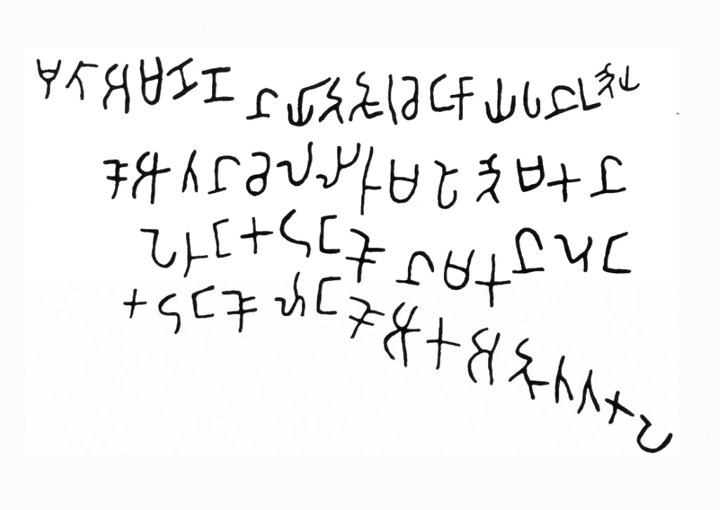 Two almost identical inscriptions discovered from Pugalur (near Karur) dated to the c. 1st - 2nd century CE, describe three generations of Chera rulers of the Irumporai clan. They record the construction of a rock shelter for Jains on the occasion of the investiture of Ilam Kadungo, son of Perum Kadungo, and the grandson of Ko Athan Cheral Irumporai.